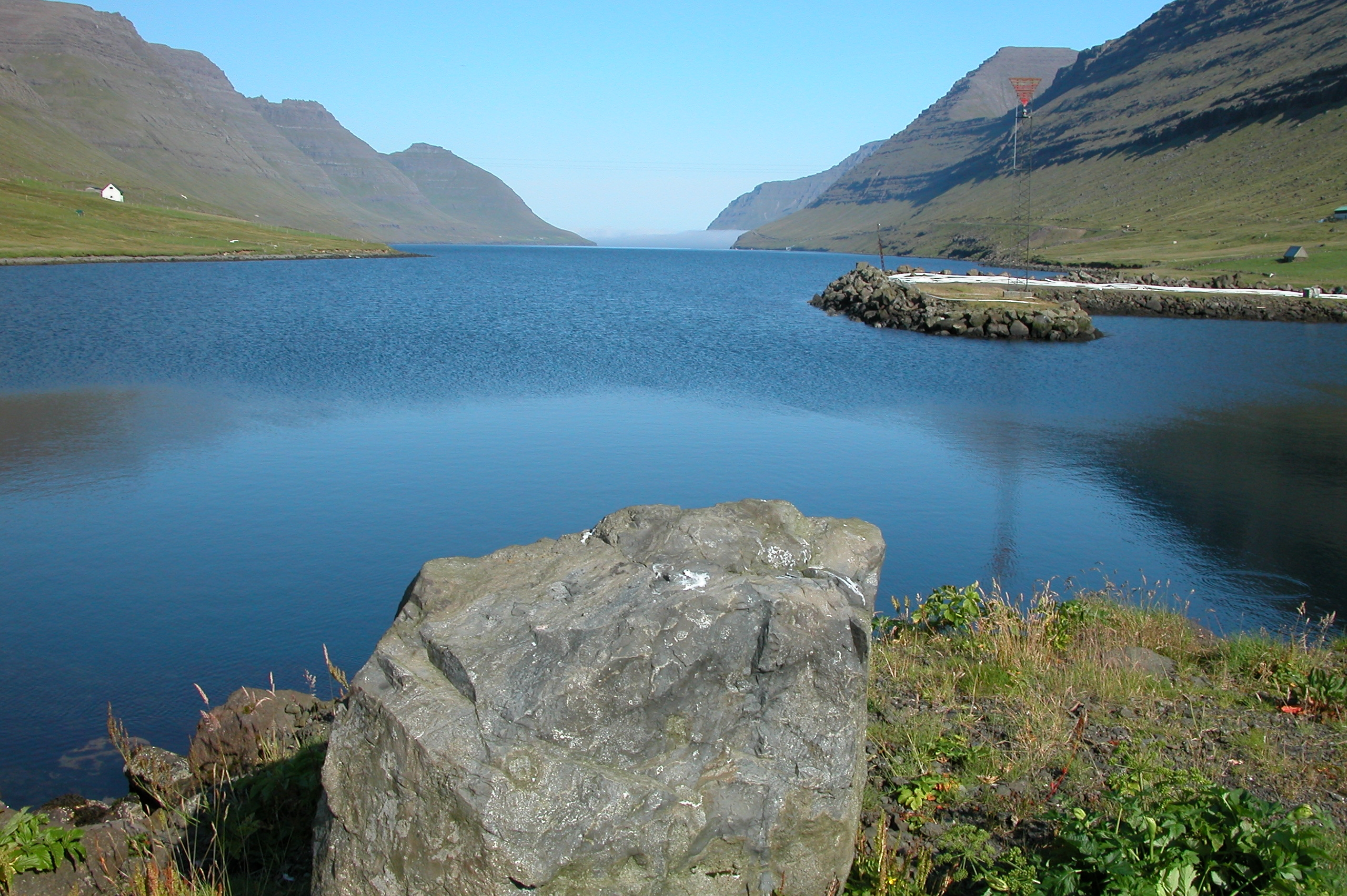 Hvannasund on Viðoy, Faroe Islands.